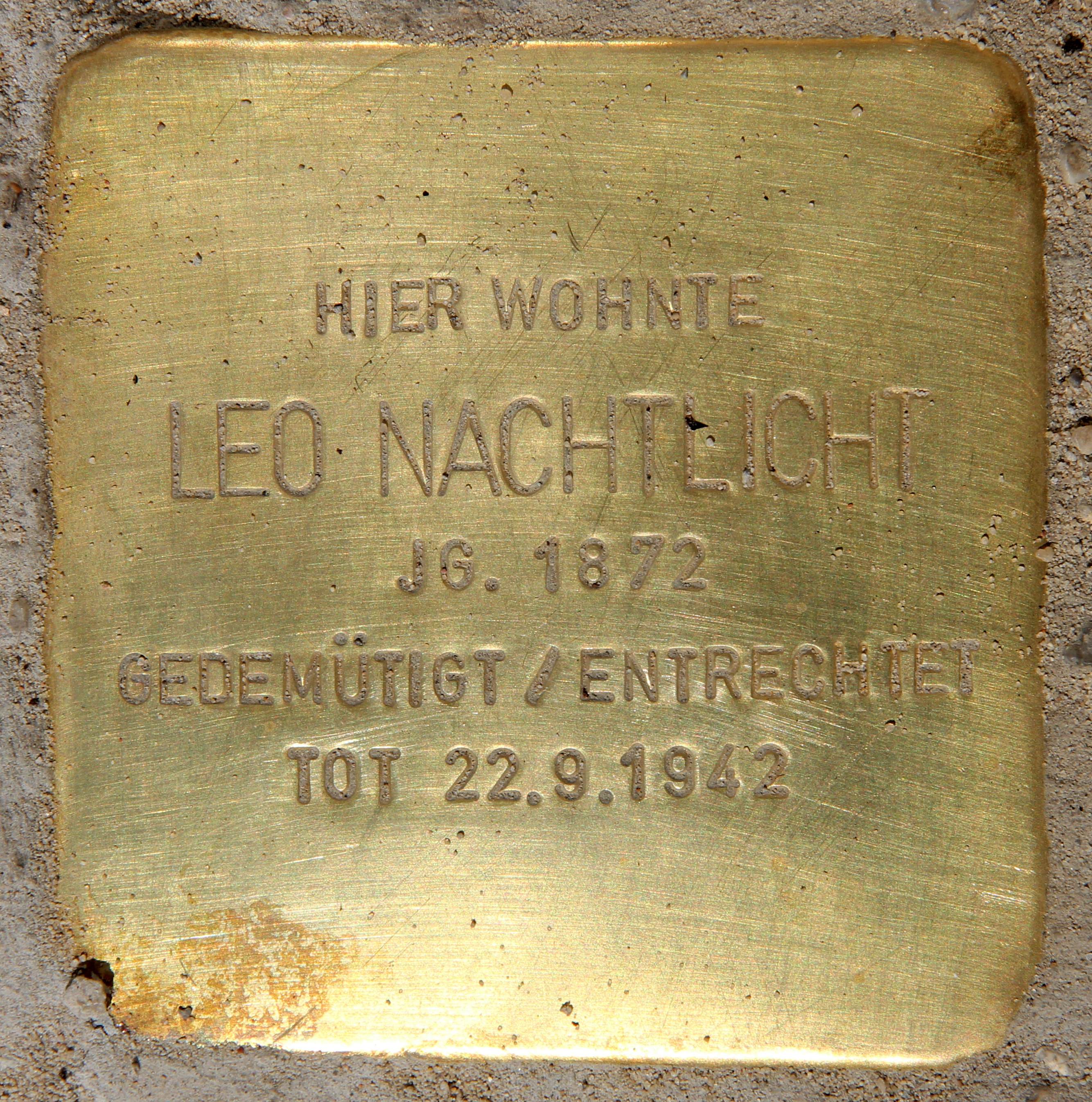 "Stolperstein" (stumbling block), Leo Nachtlicht, Trautenaustraße 10, Berlin-Wilmersdorf, Germany